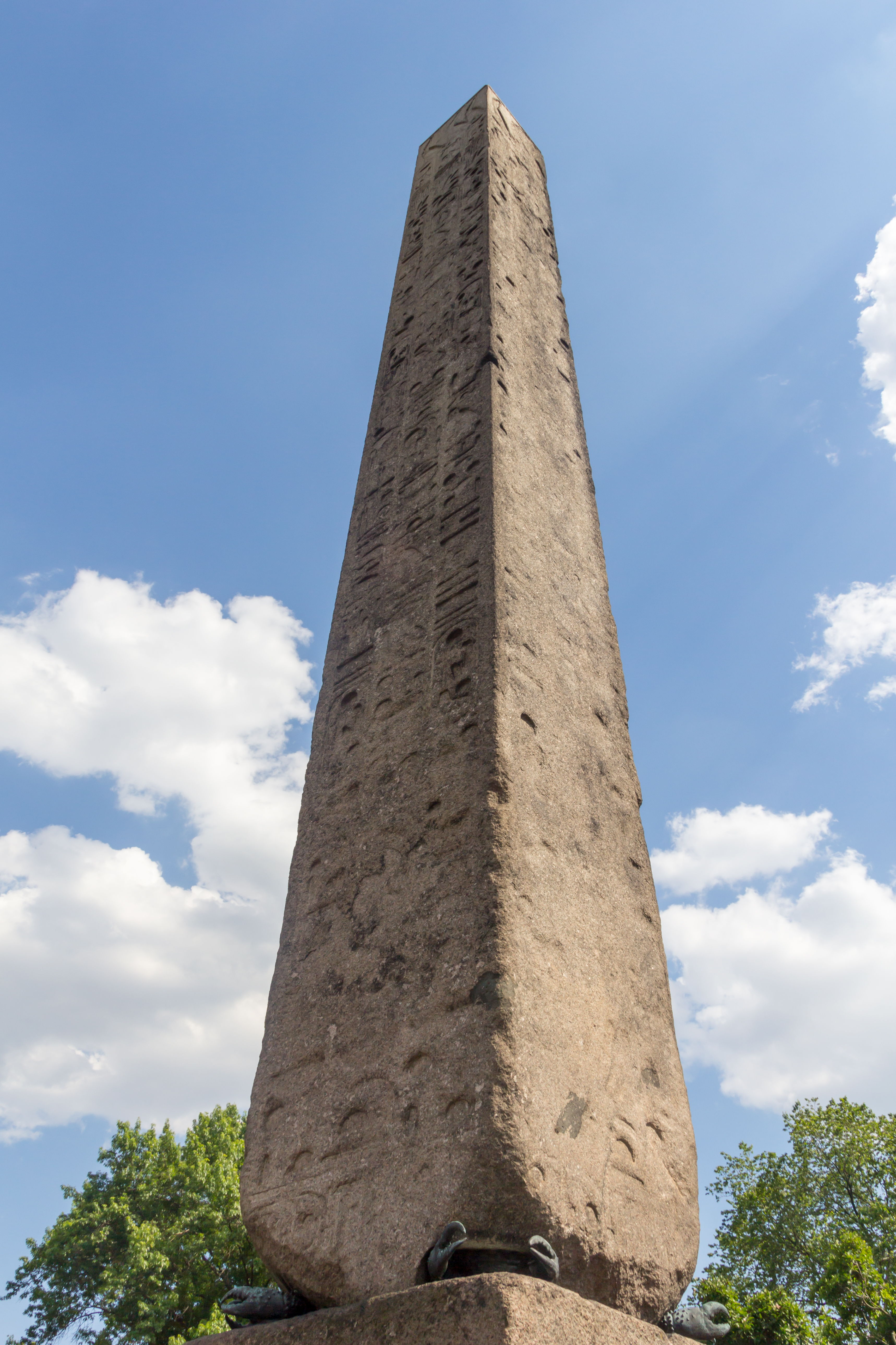 Cleopatra's Needle, New York.